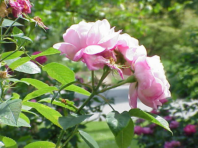 Species: Rosa sp. Family: Rosaceae Cultivar: Coupe d´Hébé, Laffay 1840 Image No. 81